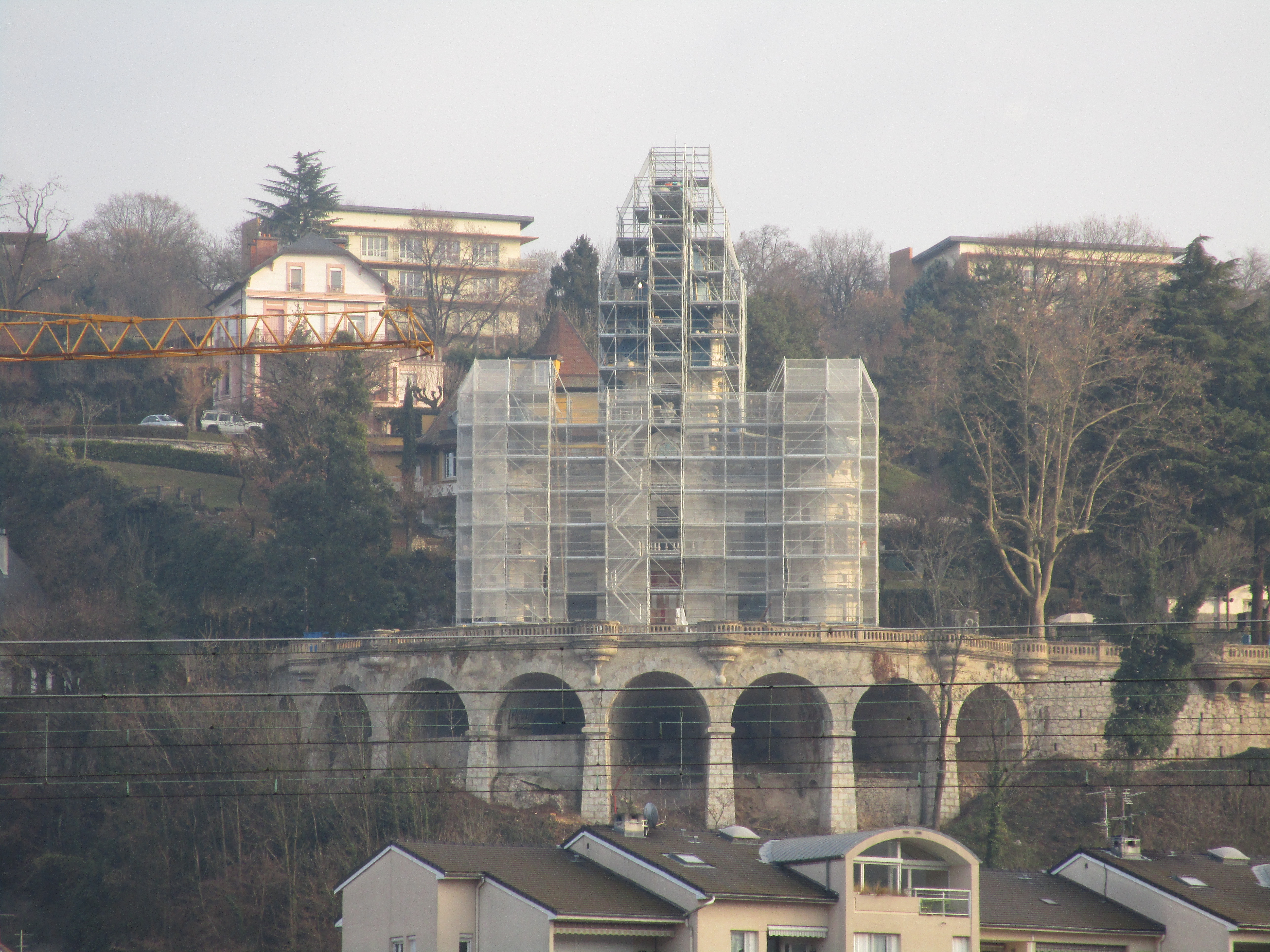 The Château de la Roche du Roi, in Aix-les-Bains, during its renovation on December 18, 2016.